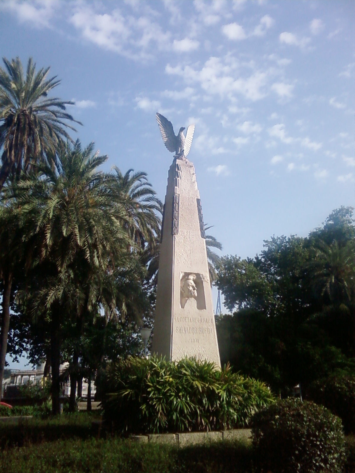 Monument to the poet Salvador Rueda at Málaga Park, Spain